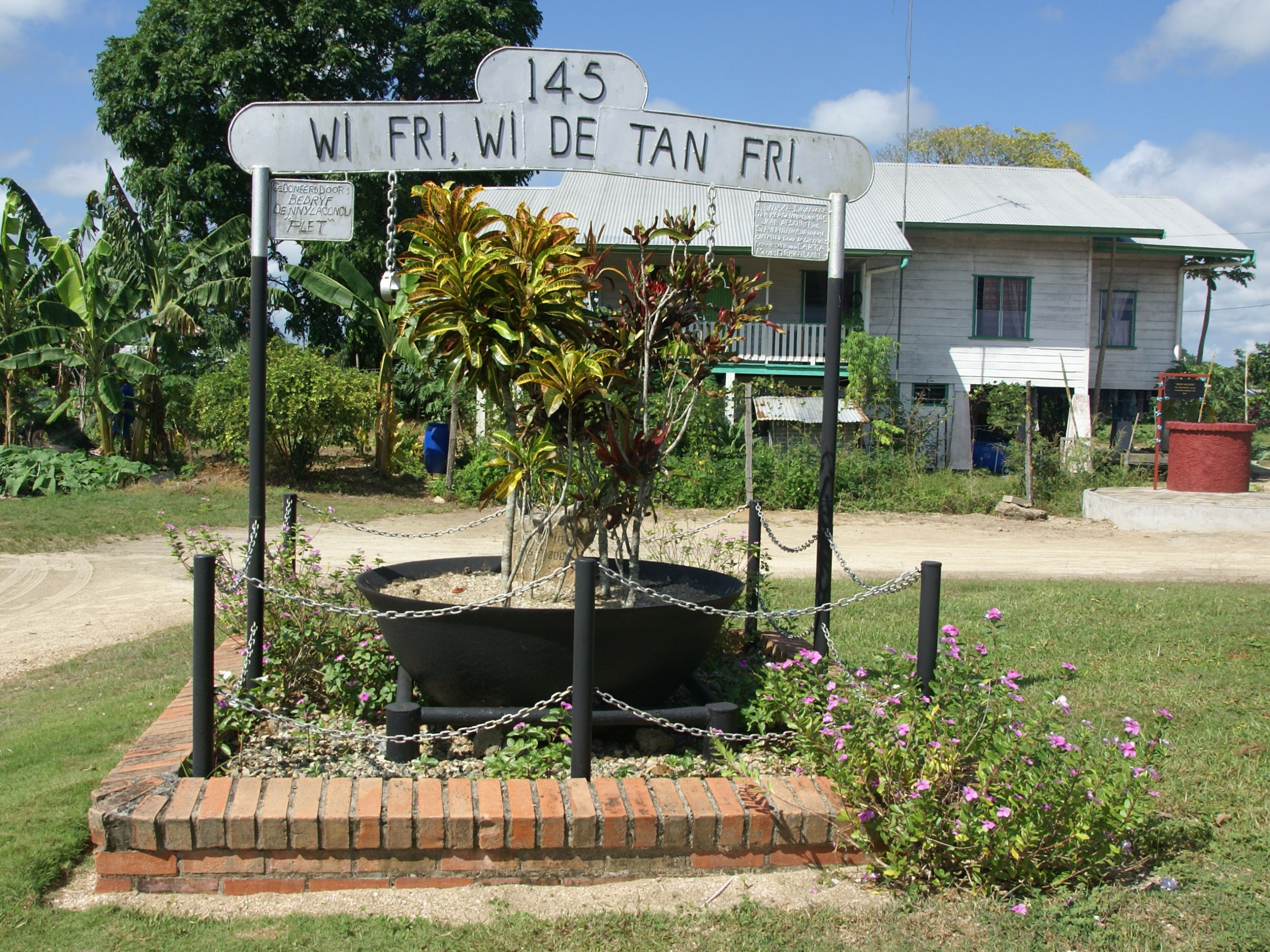 Monument 145 jaar afschaffing slavernij, Groningen, Surinam. 1988.